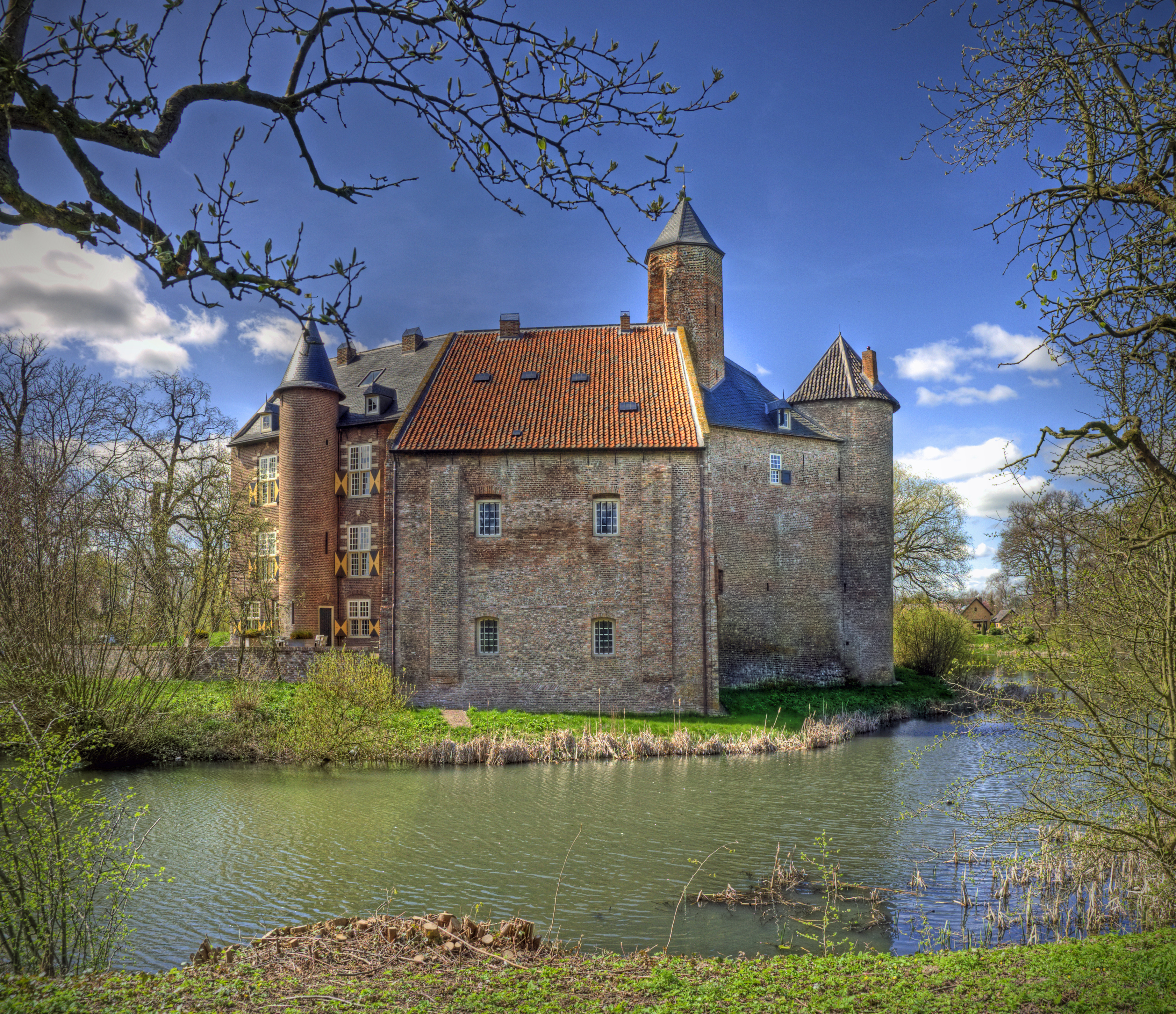 Highest position on Explore: #357 on Monday, April 12, 2010 Waardenburg Castle nowadays is a remnant of a castle with a polygonal shape dating back to around 1283. The castle was preceded by a wooden castle built in 1265. It was then known as Hiern Castle, named after the hill is was built on. This wooden castle was founded by a Rudolf Cock. His ancestors owned the castle until 1401, which was then known as Weerdenbergh Castle. This name translates as "washland hill". During the Eighty Years War, in the 16th century, the castle was taken by surprise and pillaged. The castle was heavily damaged in the process; only its heavy walls and the shells of the towers survived. The castle remained a ruin until 1627 when a Johan Vijgh gained ownership and started partially rebuilding the castle. During this rebuilding the bailey and the southwing, in which the entrance gate was situated, were completely demolished. In the following centuries the castle was successively owned by the Aylva and Van Pallandt families. Even in 1895 the eastern wing of the castle was enlarged and fitted with a little stairtower. Today the castle lies separated from the river Waal by a dike. But in earlier centuries the river flowed by its walls. Waardenburg Castle is now owned by the "Friends of the Castles of Gelderland"-foundation.